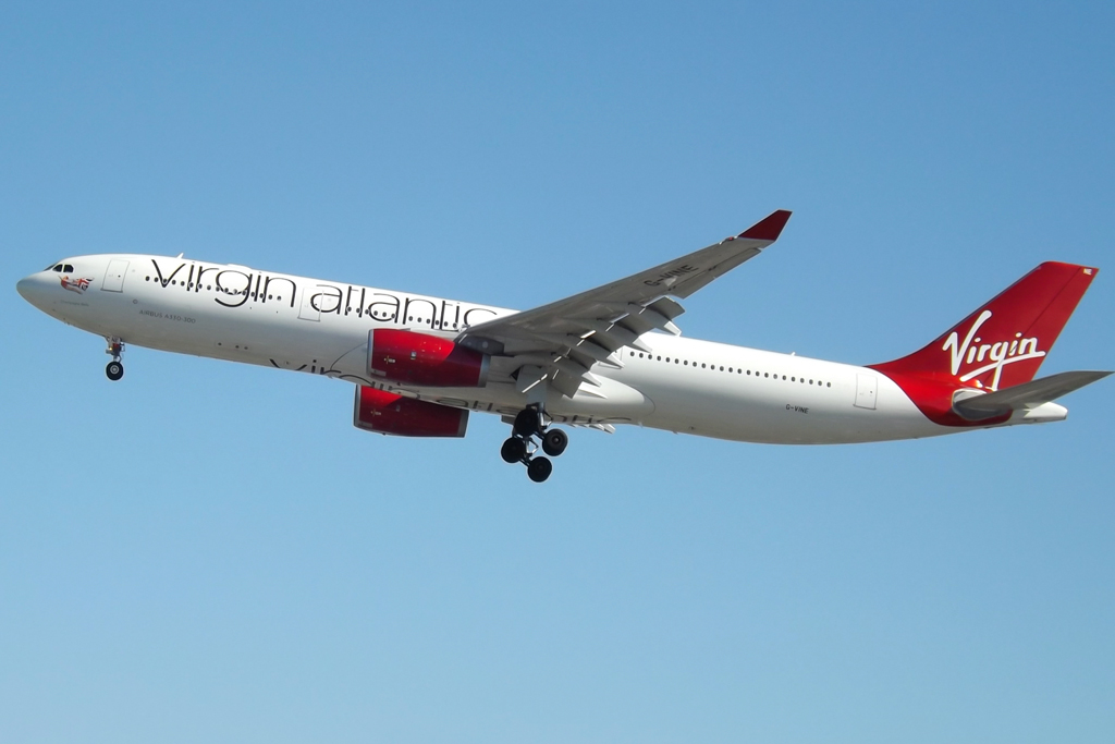 G-VINE A330 Virgin Atlantic